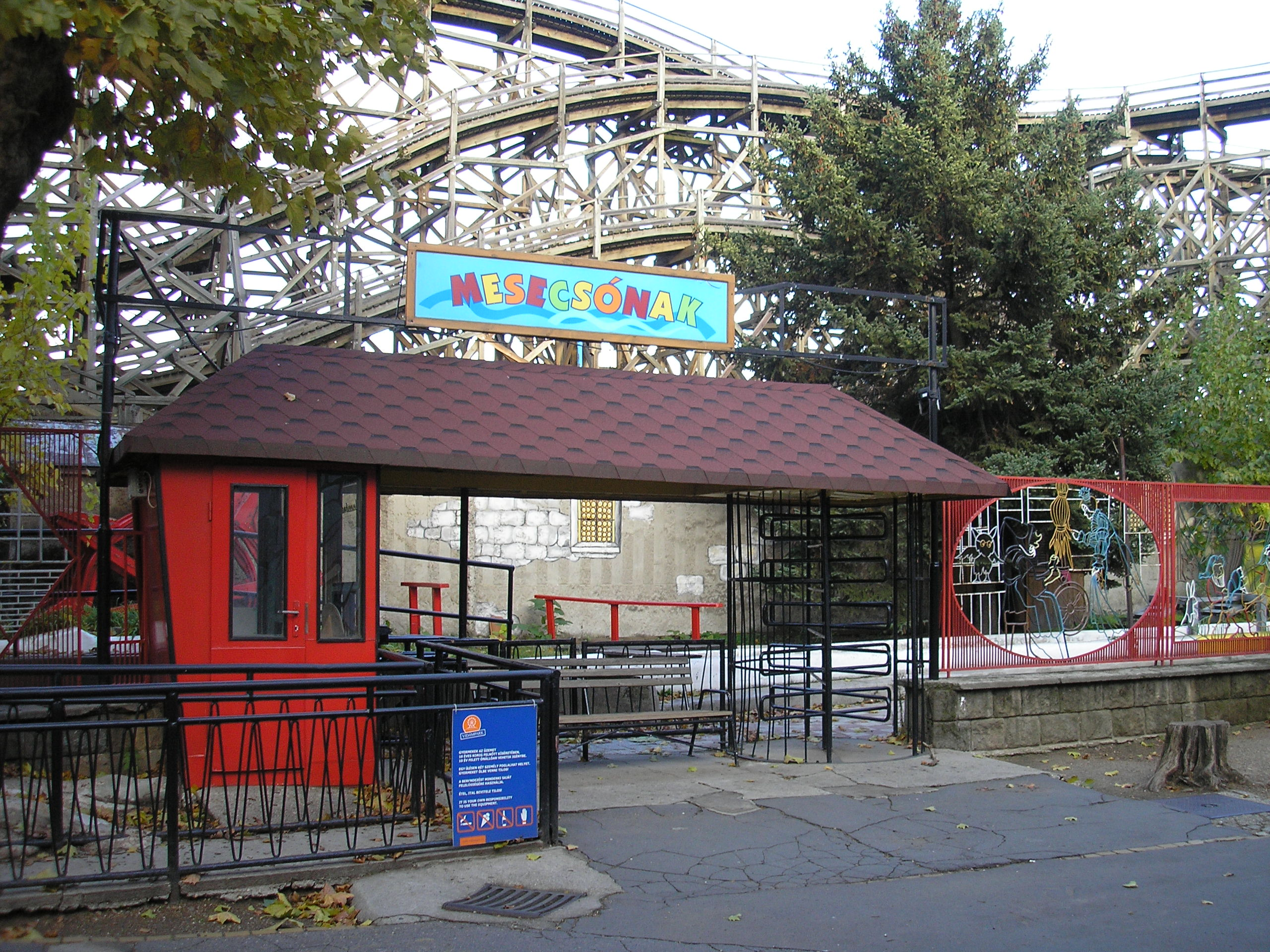 The Tale Boat at Budapest Amusement Park